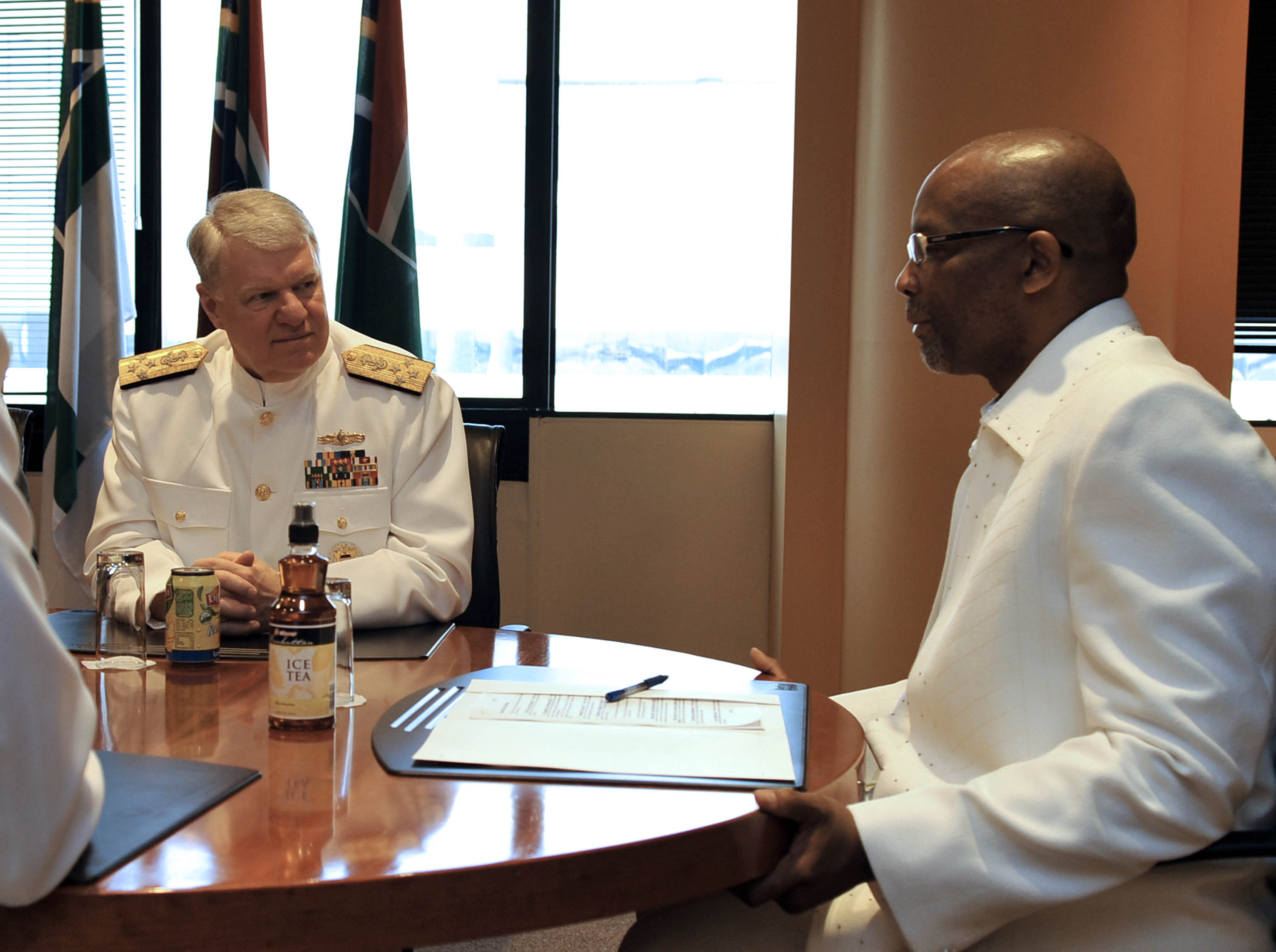 PRETORIA, South Africa (April 6, 2009) Chief of Naval Operations (CNO) Adm. Gary Roughead, left, meets with Deputy Minister of Defense Mr. Fezile Bhengu, right, during a conference call at the Defense Headquarters in Pretoria, South Africa. As the first CNO to visit South Africa, Roughead met with senior leadership to continue to build coalition partnerships and discuss training and maritime security cooperation in the region. (U.S. Navy photo by Mass Communication Specialist 1st Class Tiffini M. Jones/Released)